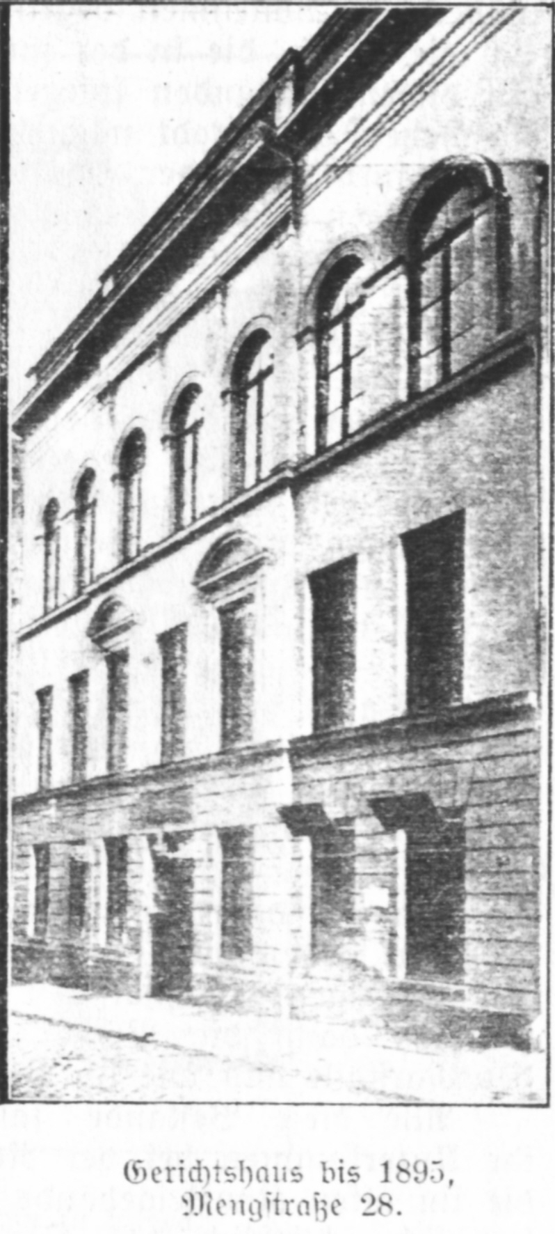 The building Mengstraße No. 28 in Lübeck; destroyed in 1942